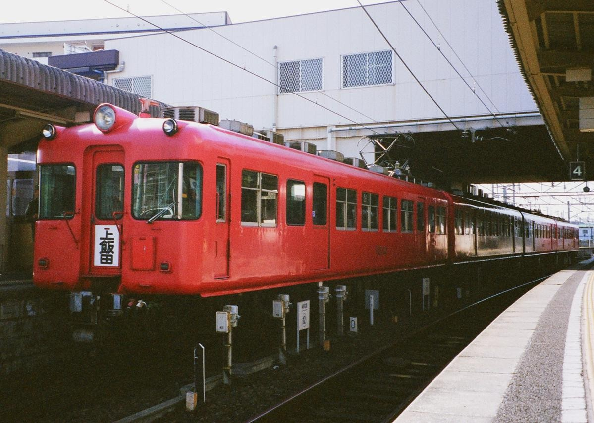 Nagoya Railroad Type 5500 Train(Japan). Taking a picture from platform at Inuyama Station the Komaki line. 名鉄5500系電車 名鉄小牧線犬山駅にて、ホームより撮影。